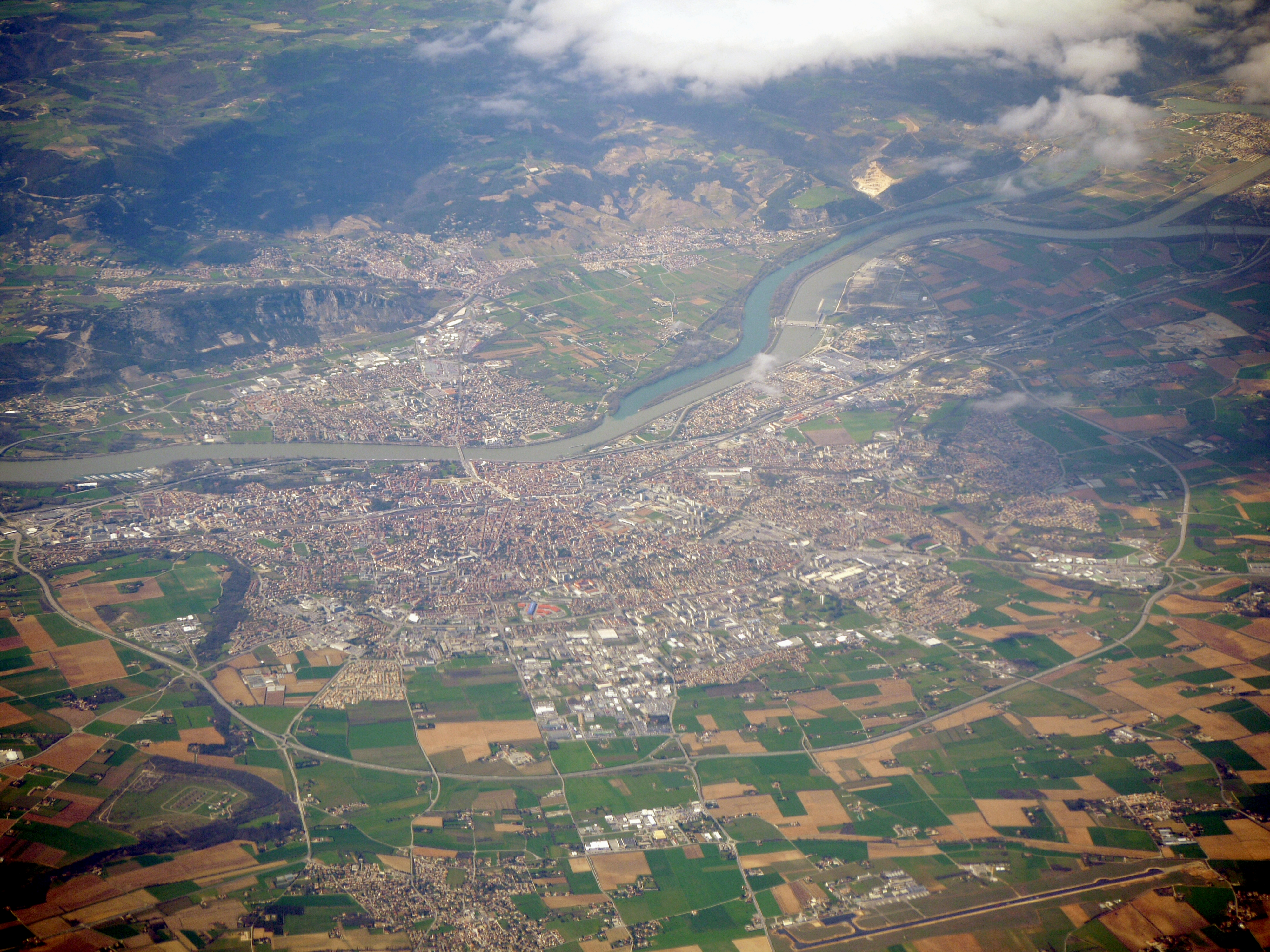 Valence, photograph taken from the sky, on the fly line between Marseille and Stockholm.